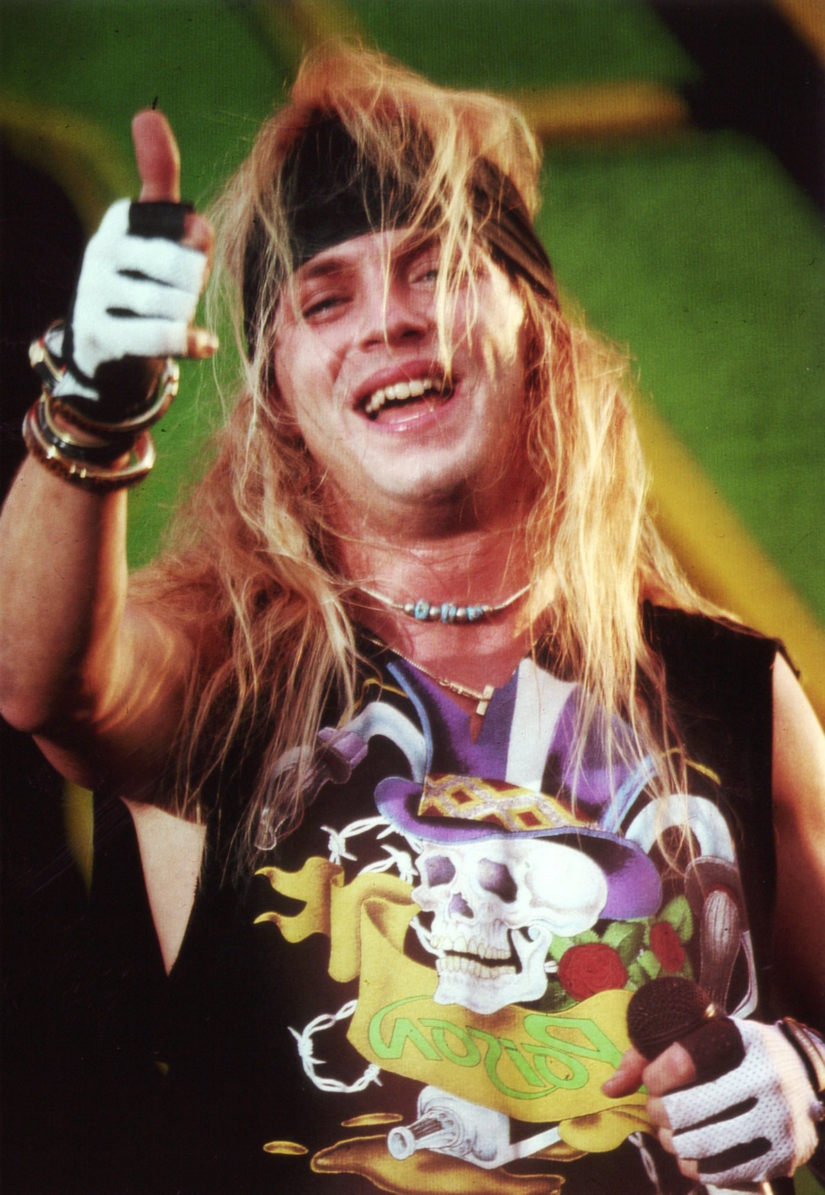 Bret Michaels of Poison in Paris - Sept.1990.